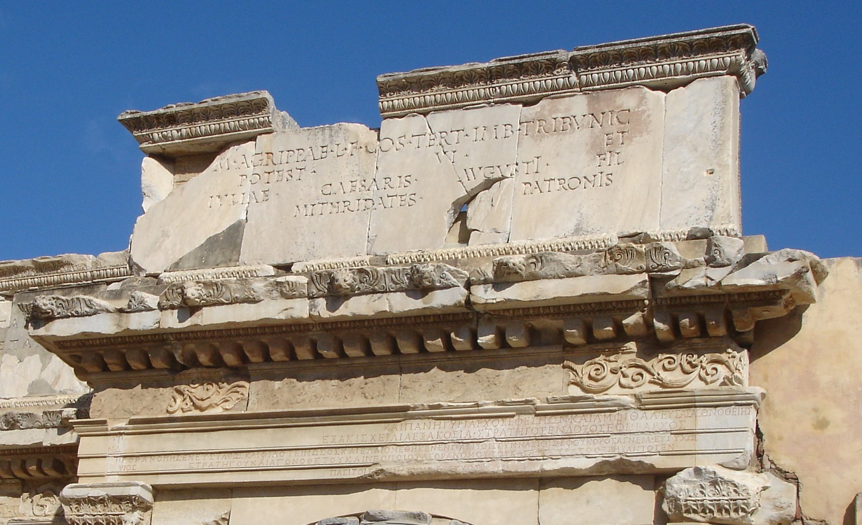 An inscription in honor of Agrippa and Julia at the south entrance gate to the agora in Ephesus, build in 4/3 BC. (ILS 8897) The inscription read: M•AGRIPPAE•L•F•COS•TERT IMB•TRIBVNIC•POTEST•VI ET•IVLIAE•CAESARIS•AVGVSTI•FIL MITHRIDATES•PATRONIS